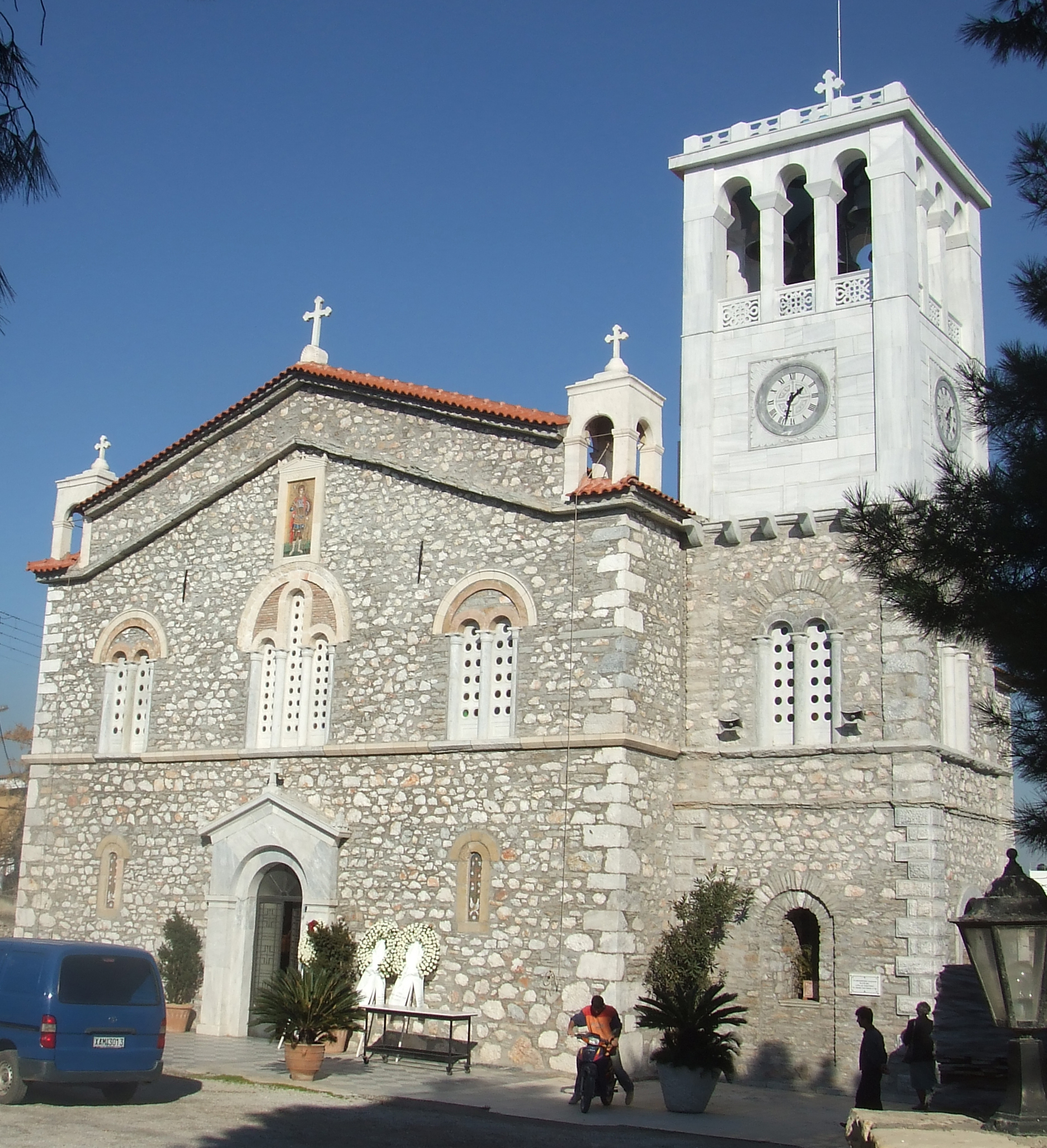 The church in Aliveri, Greece